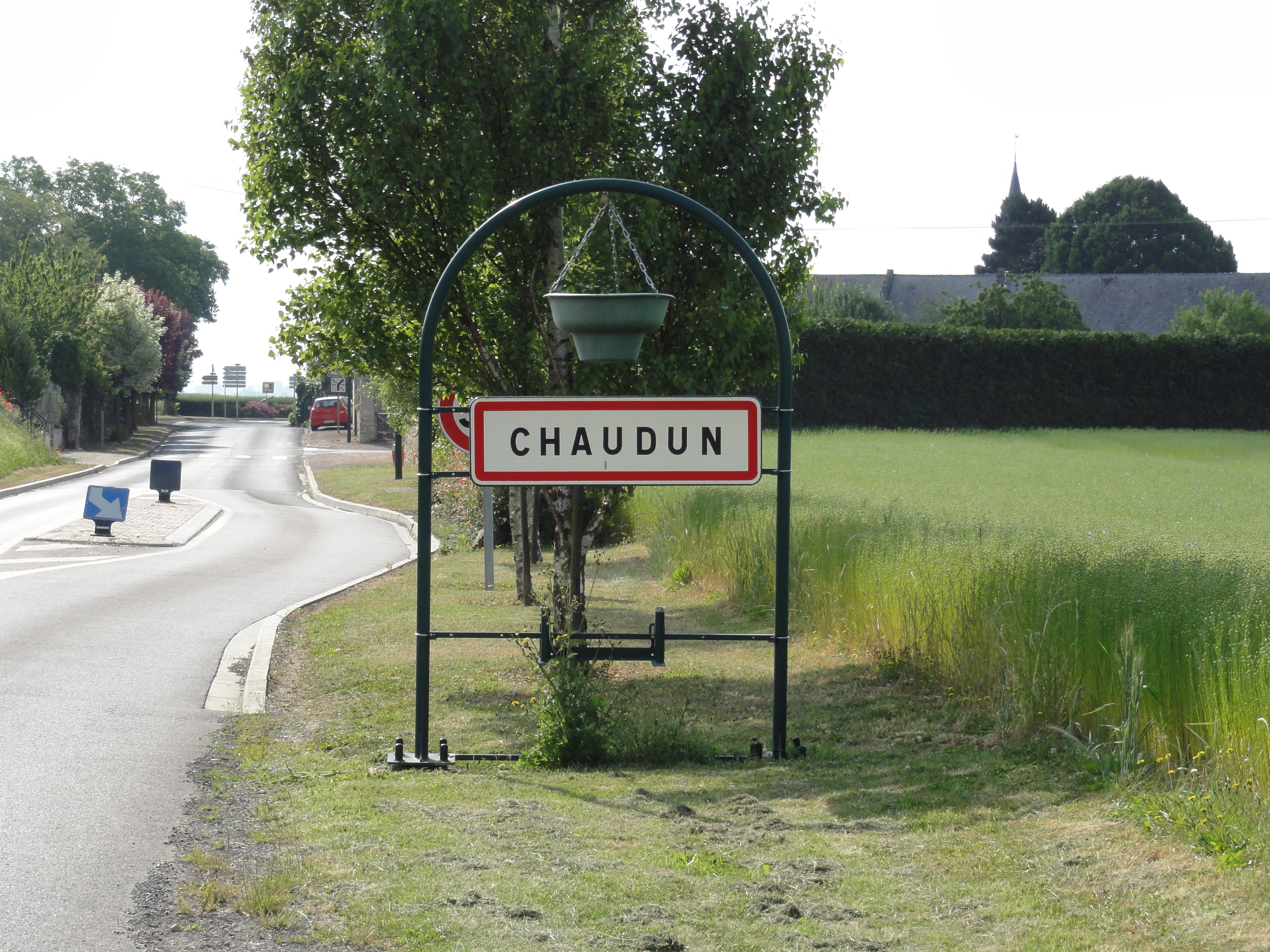 Chaudun (Aisne) city limit sign